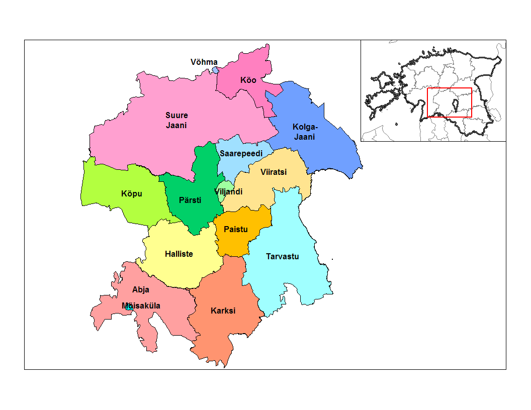 Map of the municipalities of Viljandi county in Estonia. Created by Rarelibra 17:36, 22 December 2006 (UTC) for public domain use, using MapInfo Professional v8.5 and various mapping resources.